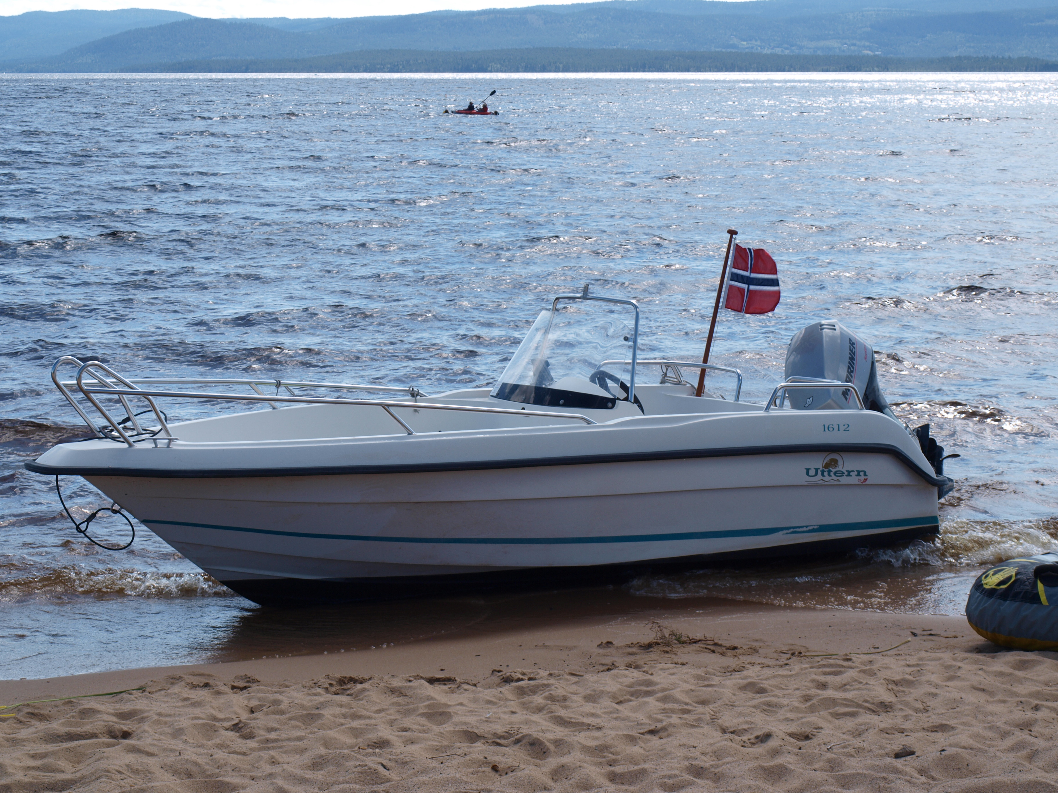 Uttern 1612, a Swedish motor boat.